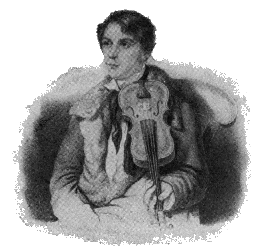 Ole Bull (1810-1880). Litography by Johan Cardon after work by K.P. Mazer. Published in Volume 7 (of 8) of Nils Personne's history of Swedish theater